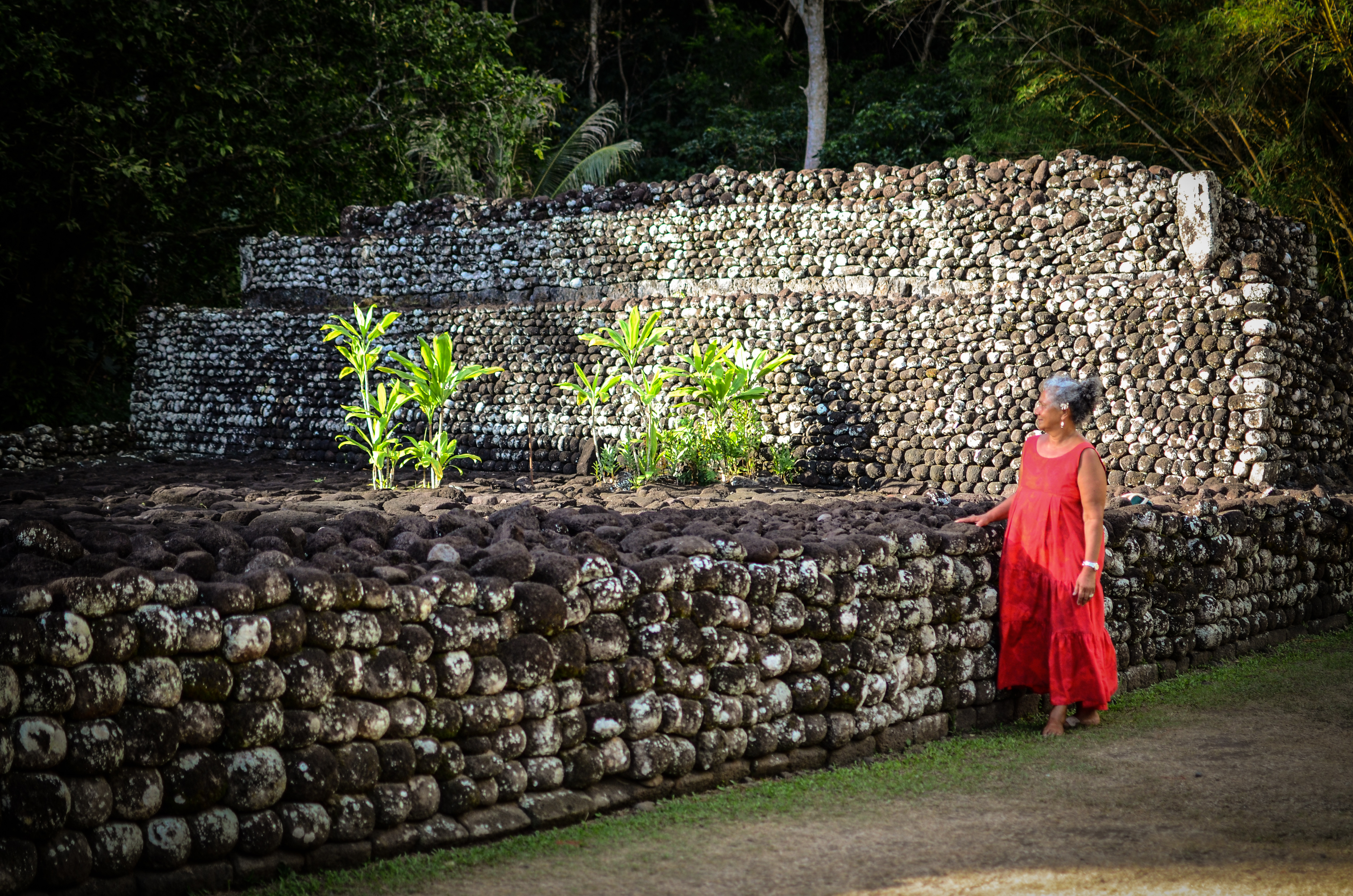 One of the most famous Marae in Tahiti, Paea. Restored in 1953, it is the Heiva's dance performance venue.